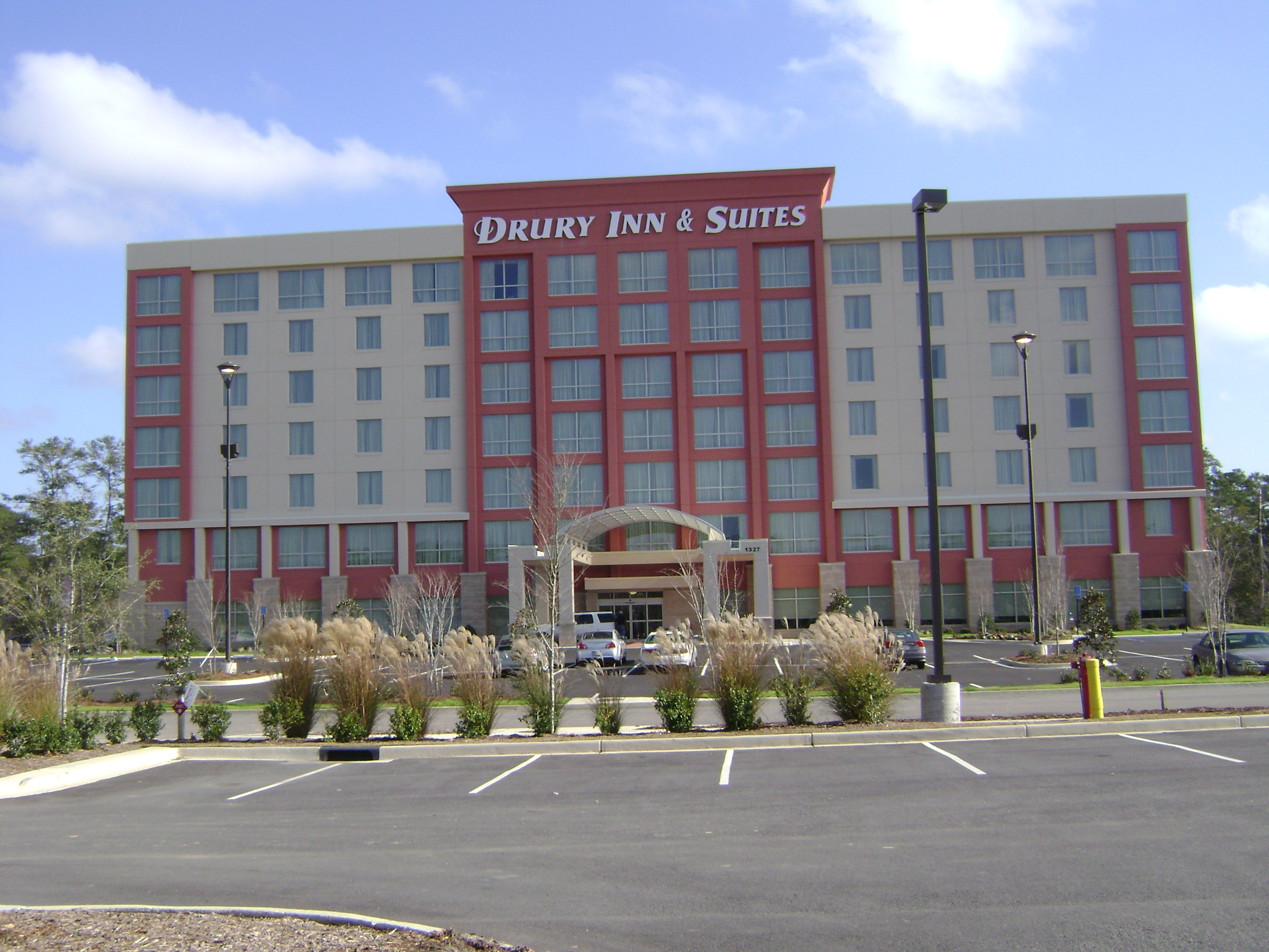 Drury Inn, 1327 St Augustine Rd, Valdosta, GA 31601